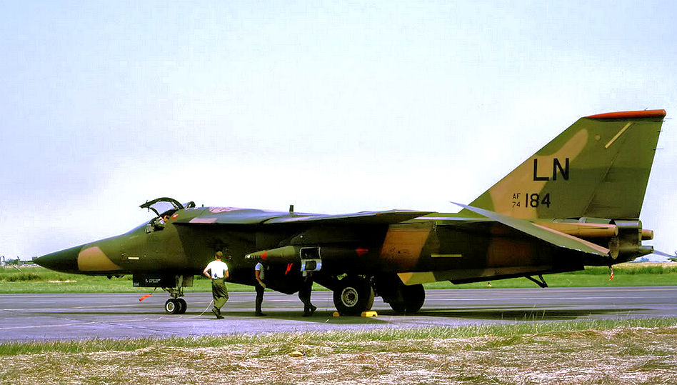 494th Tactical Fighter Squadron - General Dynamics F-111F - 74-0184